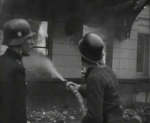 Brand na het bombardement op het Centrale Bevolkingsregister in Den Haag. Still uit Polygoonjournaal 1944